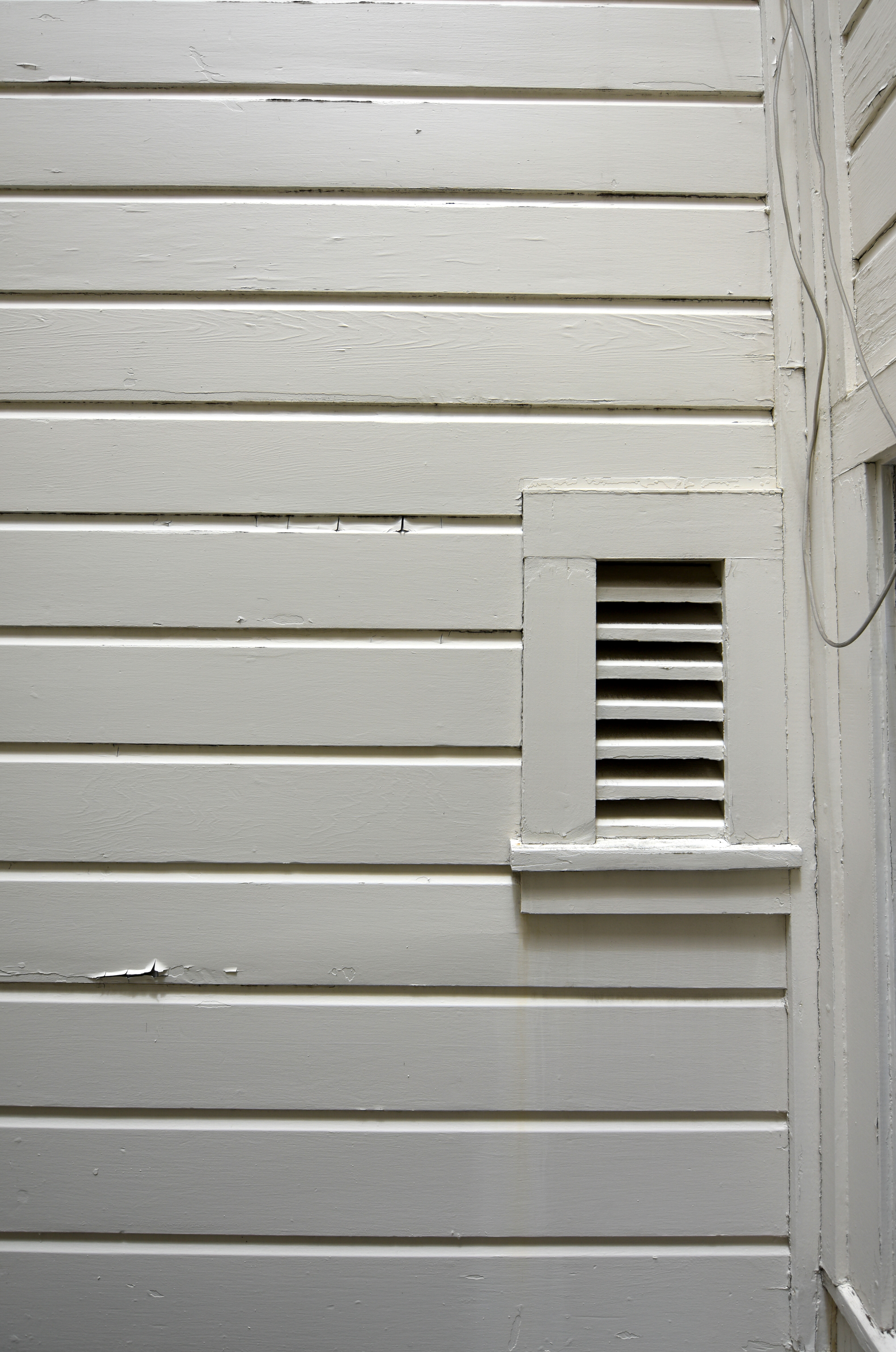 This shows a single vent leading to a California Cooler. A more common configuration includes two vents.